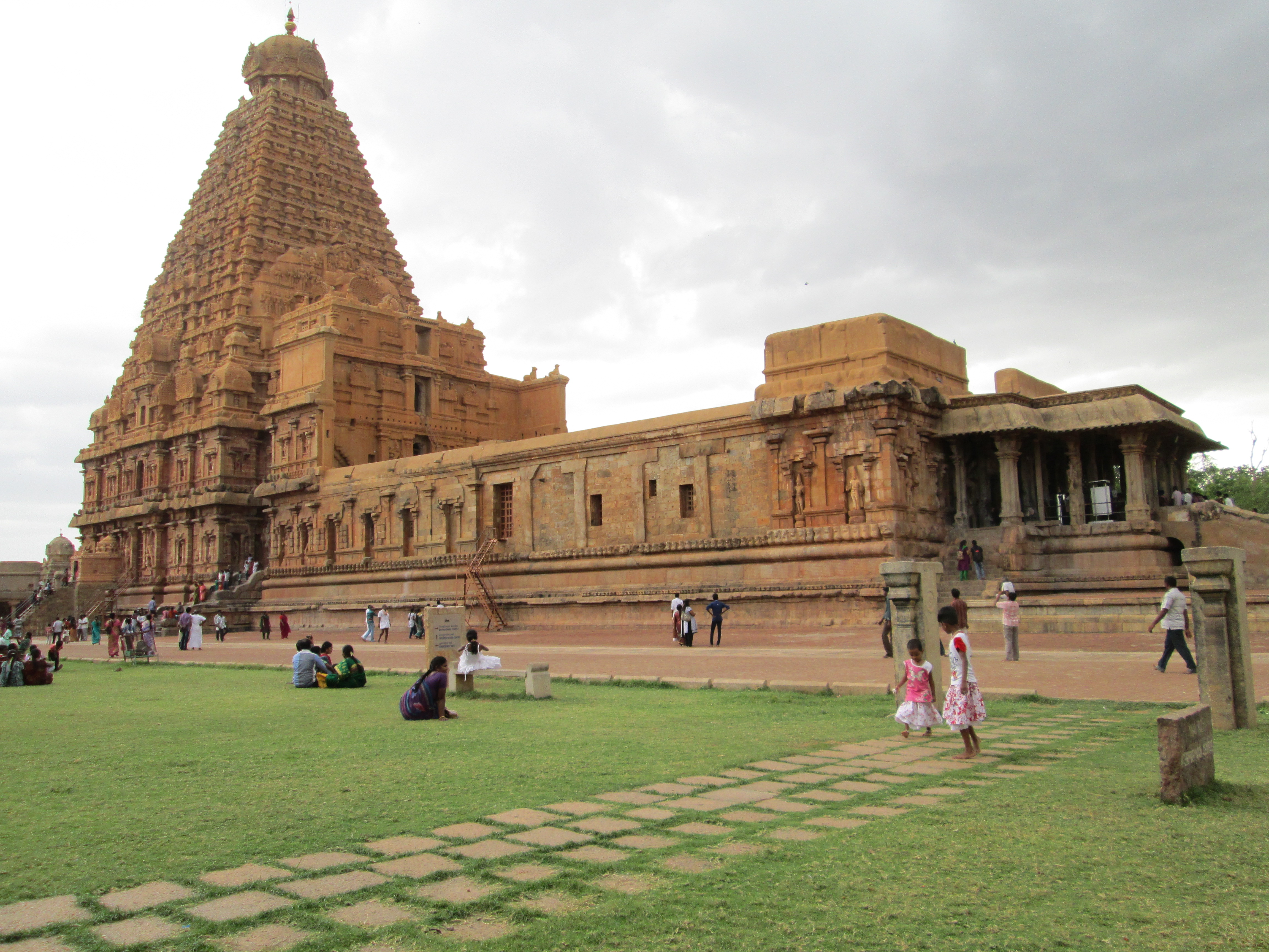 Big Temple or Brihadeeswarar Temple in Tanjore, Tamil Nadu, India